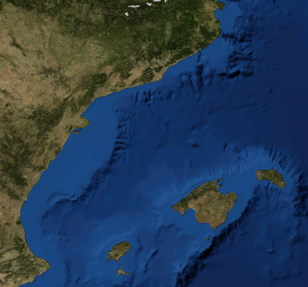 Satellite Picture of the Balearic Sea